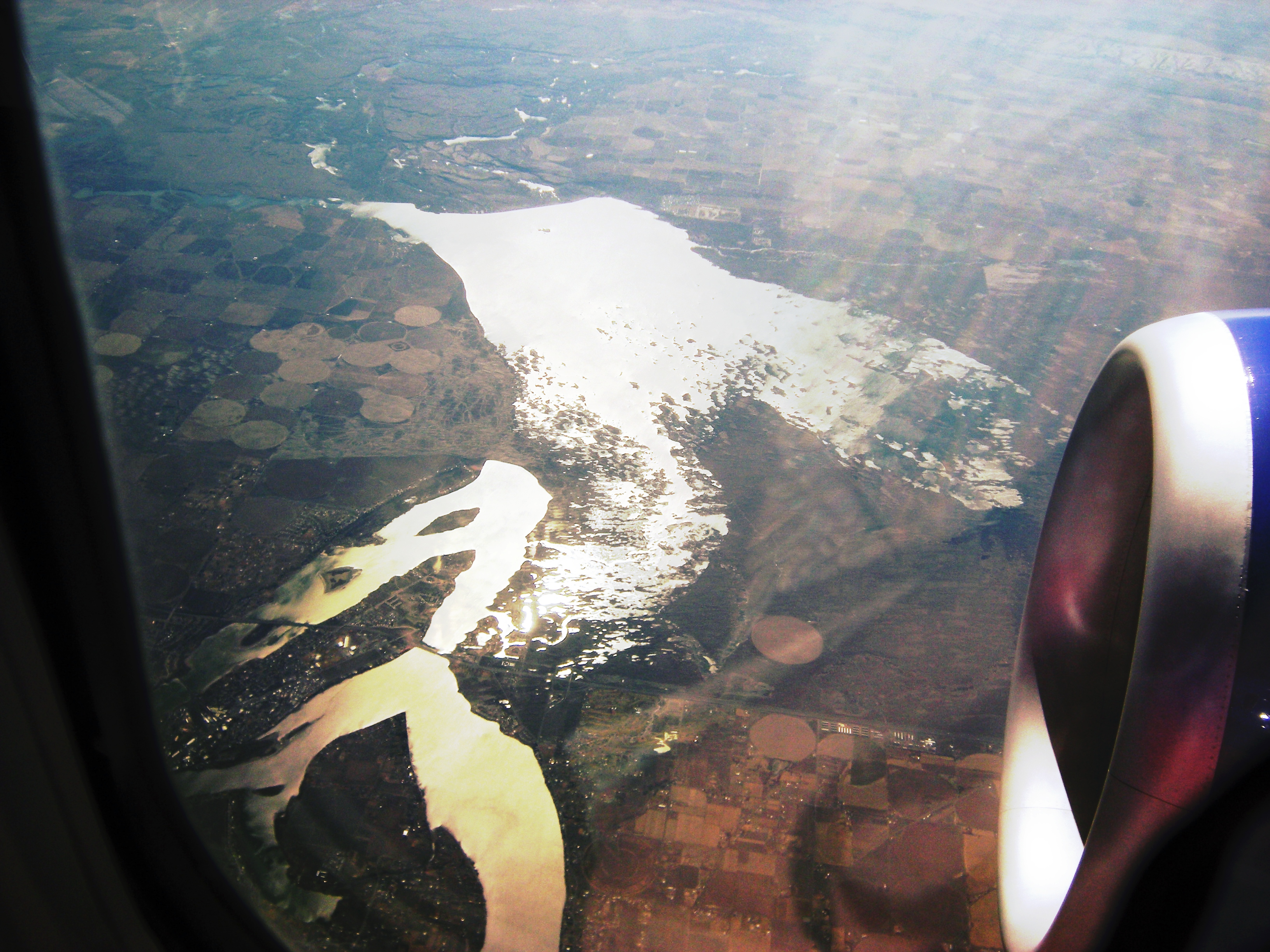 Aerial photo of Moses Lake & Potholes Reservoir, Washington, USA. Moses Lake is at lower left; Potholes Reservoir at center. The view is looking roughly southward. The road cutting across Moses Lake is Interstate 90.